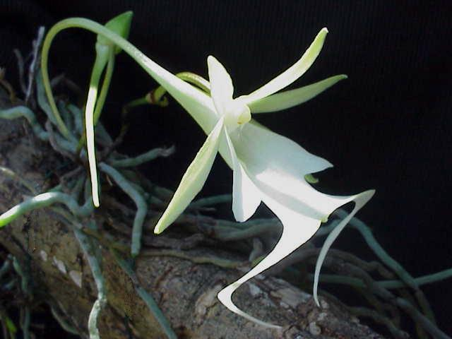 Ghost Orchid (Dendrophylax lindenii) by Mick Fournier, Pompano Beach, Florida